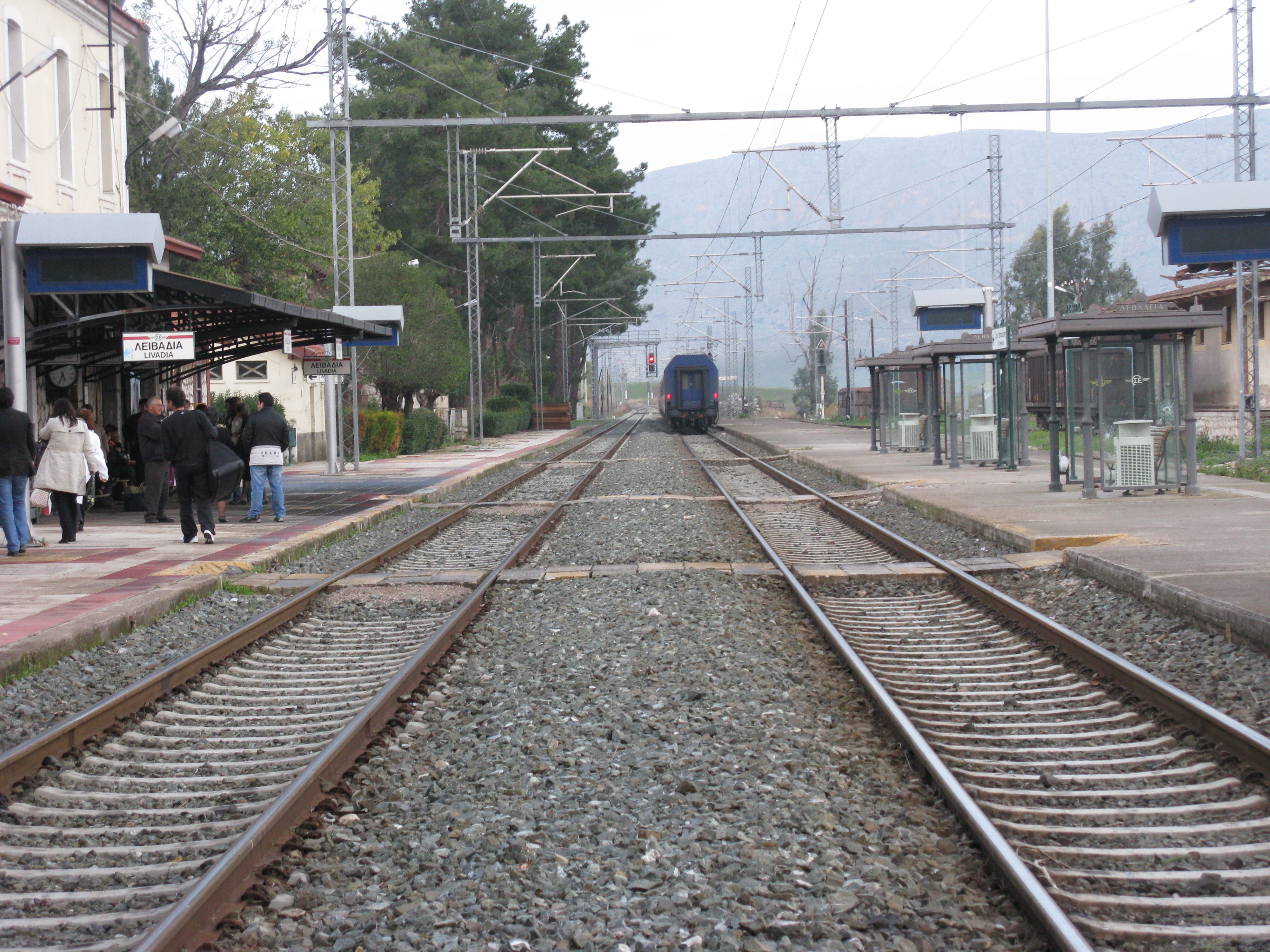 Railway station in the city of Livadia, Greece. Geocodes: 38°28'17"N, 22°55'36"E (38.4713, 22.9267).